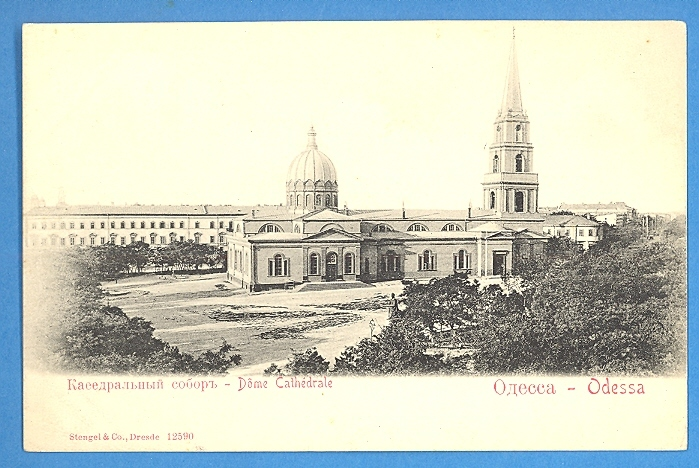 Open Letter (Post Card) with view of Odessa Cathedral. Circa last quarter of XIX century.